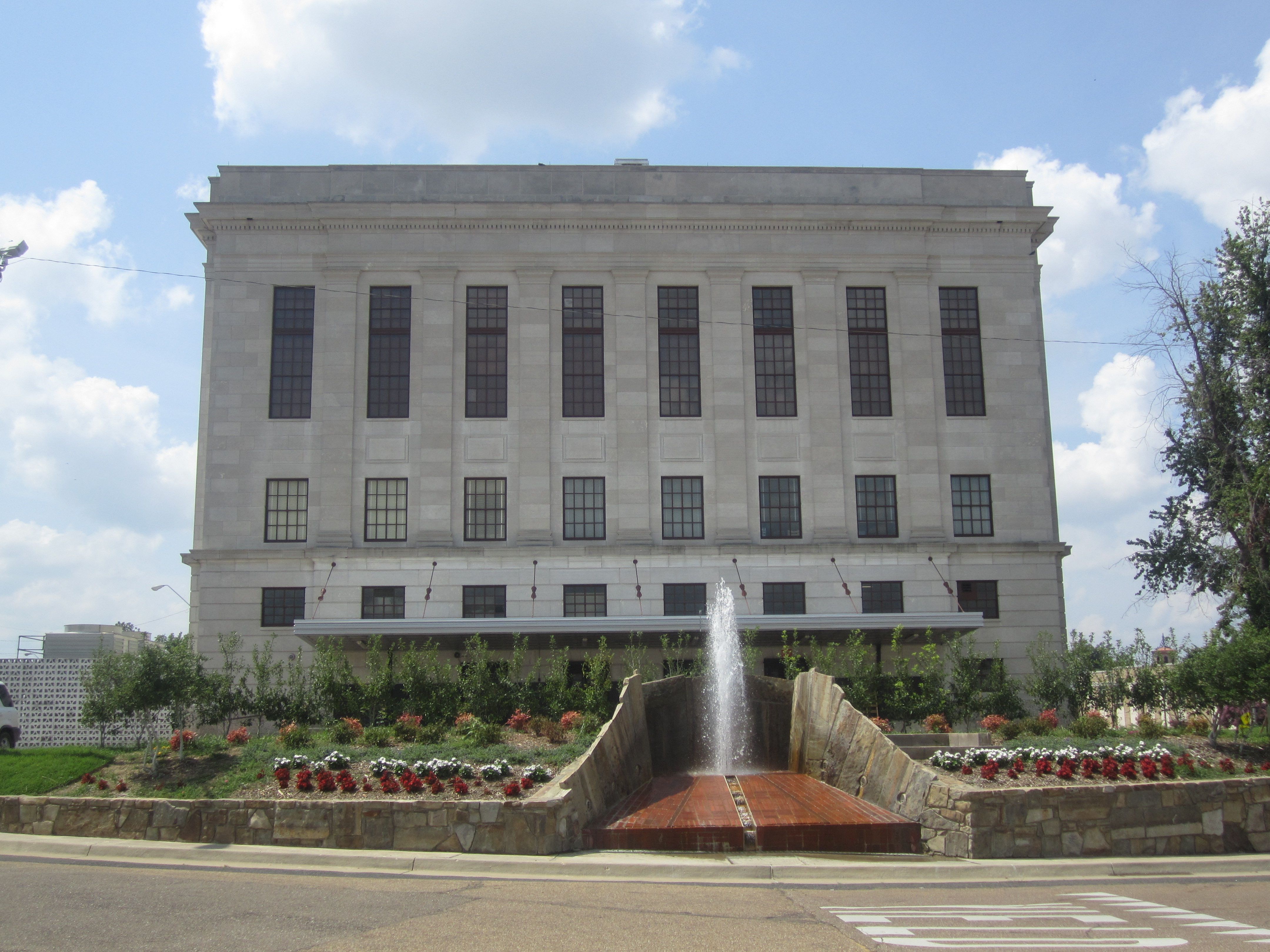 I took photo of rear of the U.S. Courthouse in Texarkana, which divides Texas and Arkansas.